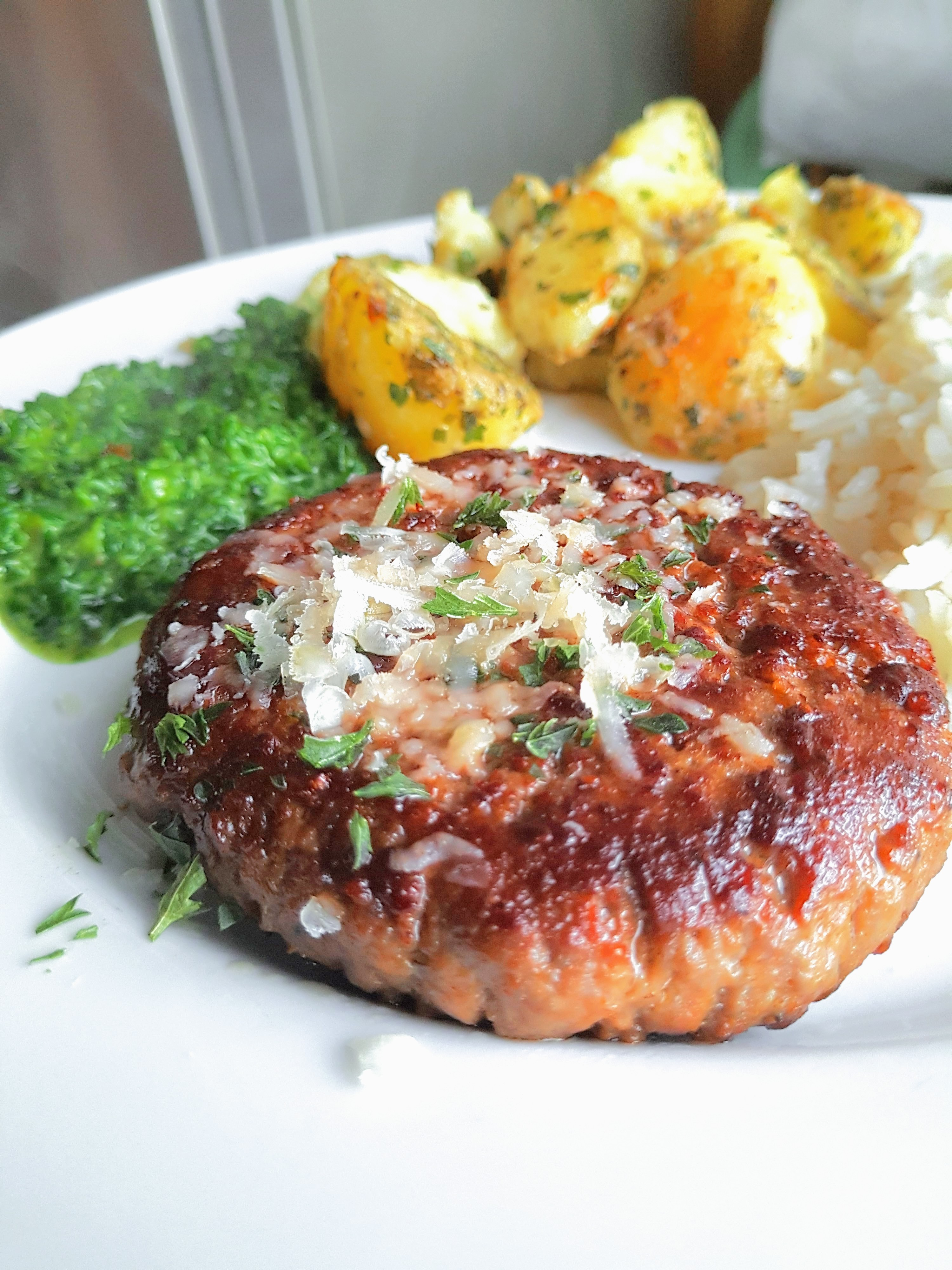 hamburger - veggies - potato - parmesan cheese food